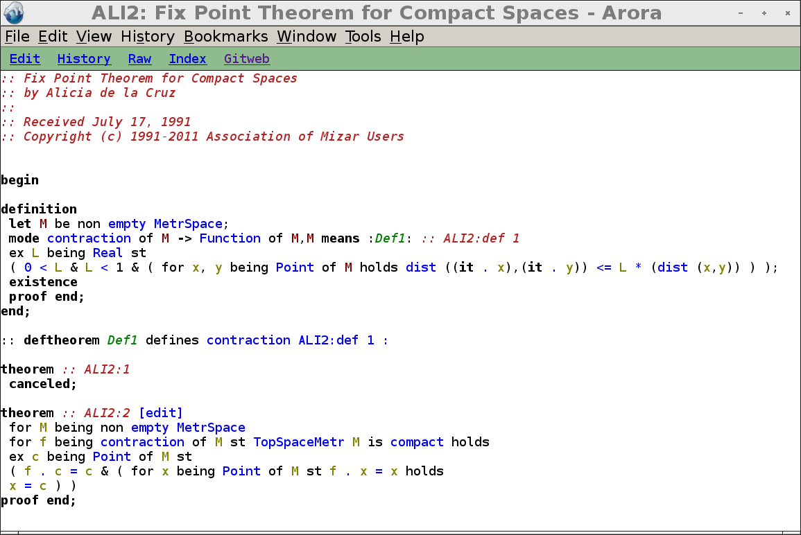 This is a screenshot of a typical Mizar Mathematical Library article as it appeared on-line in the MathWiki project on July 2012. The article shown contains the statement and proof of a commonly used fixed-point theorem for compact spaces. In this screenshot only the statement of the theorem is seen. The body of the proof becomes visible only when the word proof is clicked. This webpage screenshot was taken within the Arora web browser.